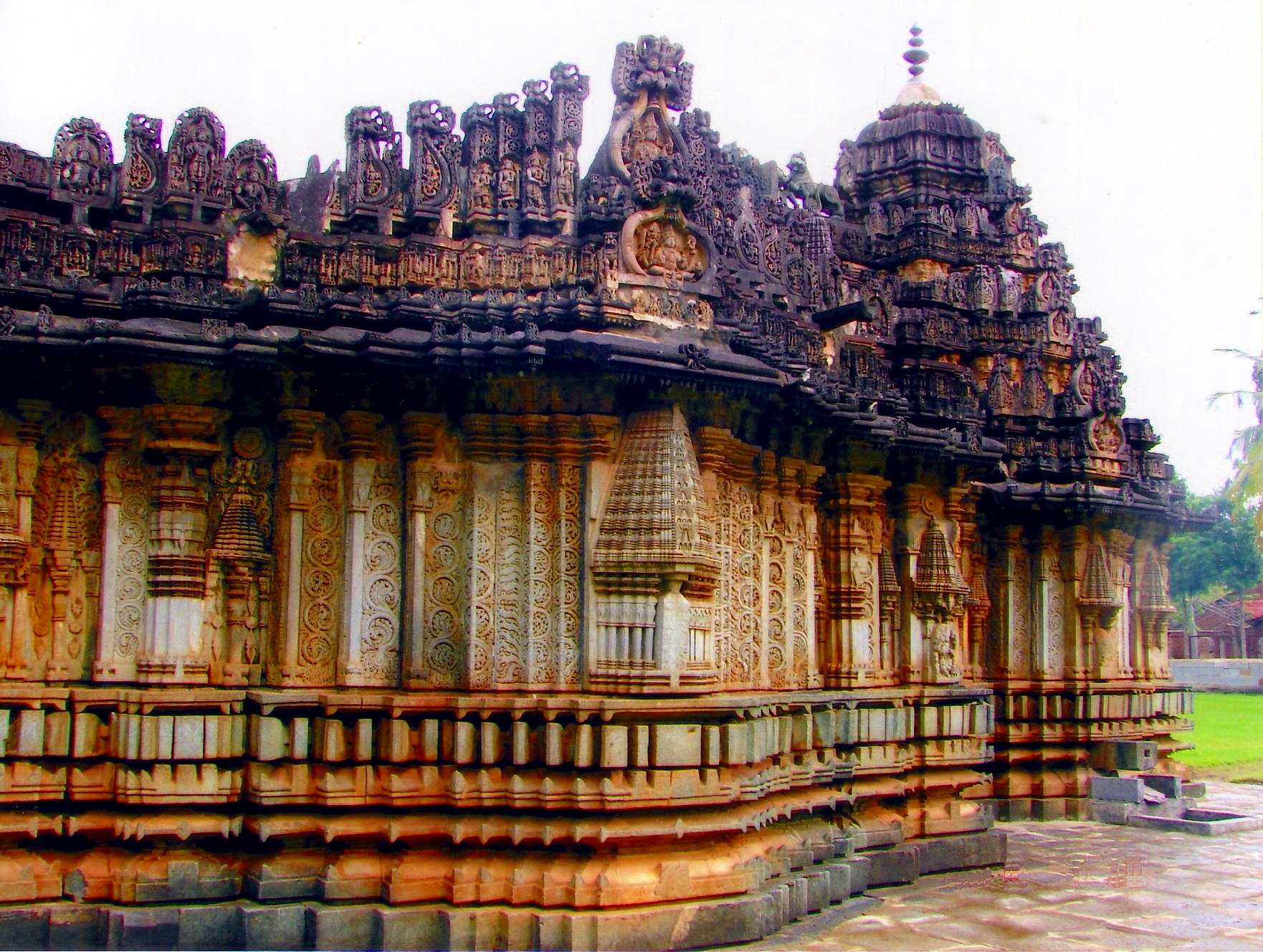 Amrutesvara temple in Amruthapura, Chikkamagaluru district, Karnataka state, India